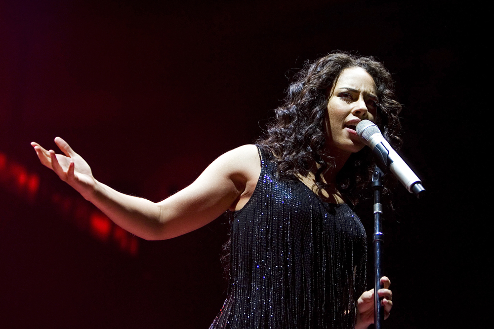 Alicia Keys at Pavilhão Atlântico, Lisbon, Portugal.